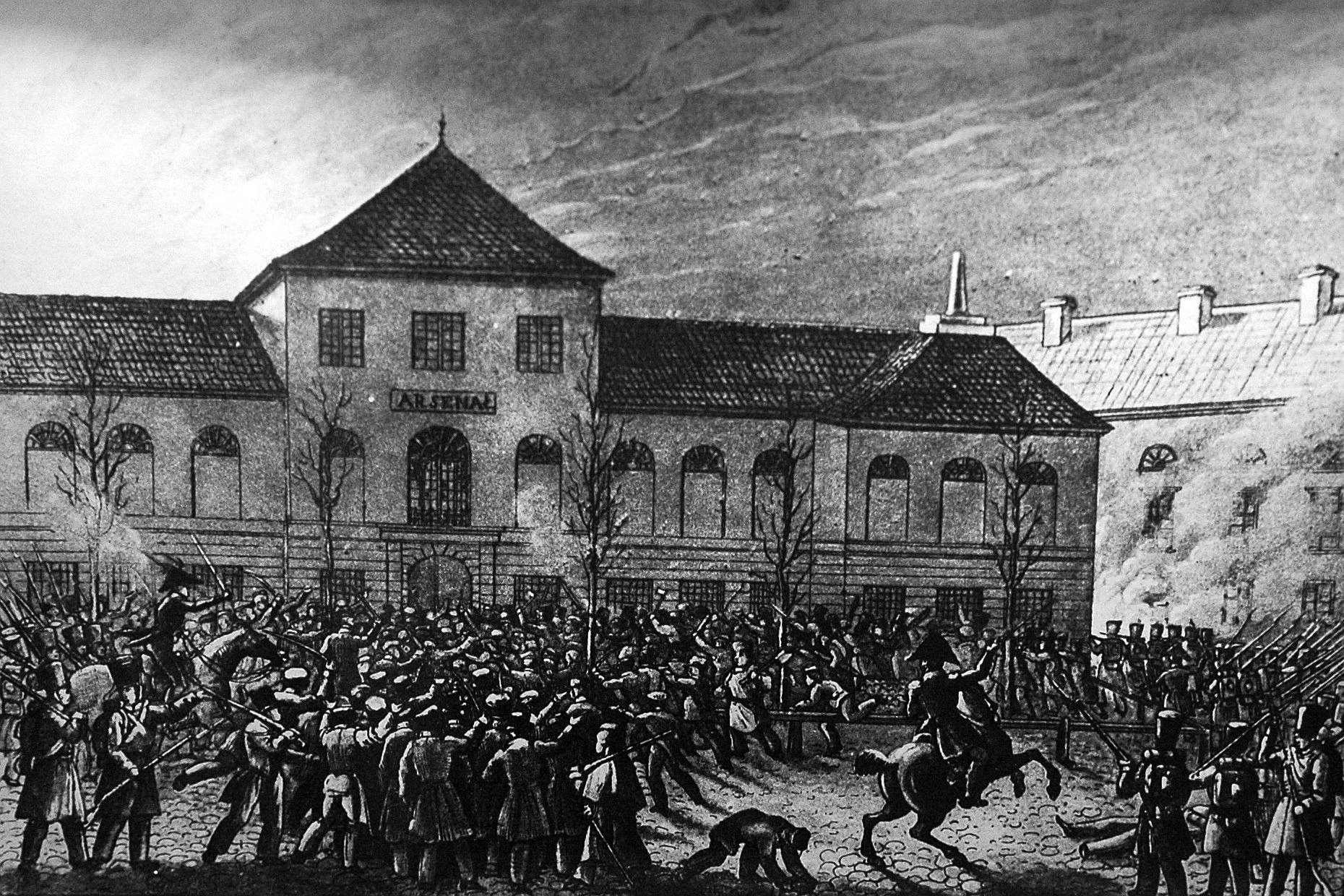 Made on a summer day in the Museum of the Polish Army in WarsawA series of anonymous xylographs depicting the early stages of the November Uprising in Warsaw, as well as the aftermath of the fights - the Great Emigration Storming the Warsaw Arsenal